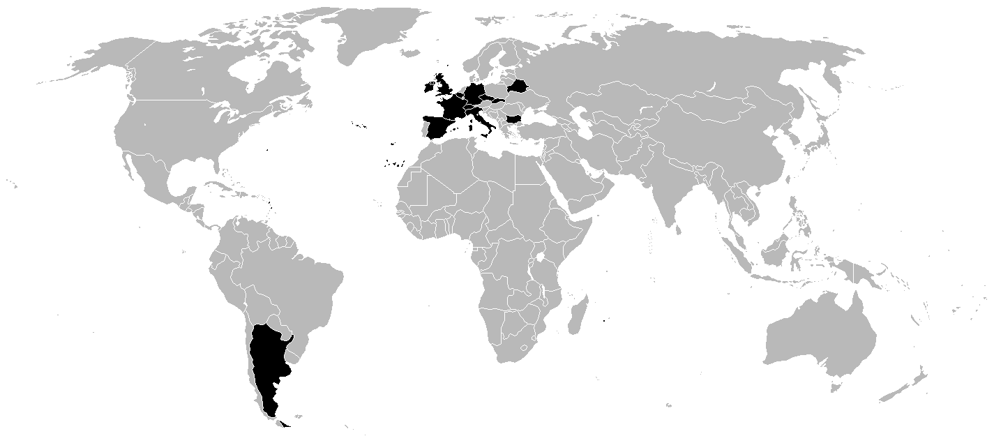 Map showing the regions where IAF/IFA members operate in.